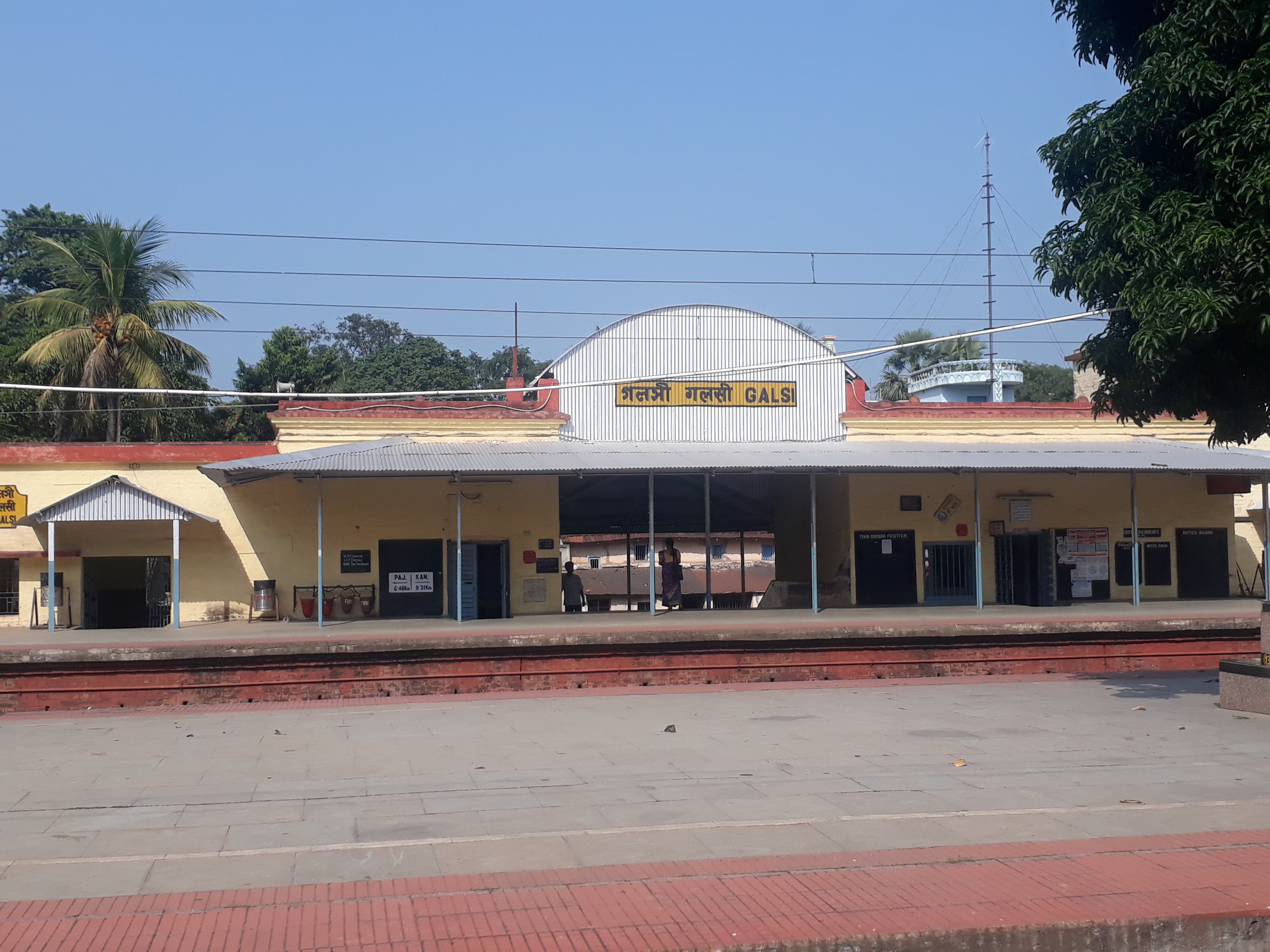 Galsi Railway stations and platforms in West Bengal, Indian Railways.